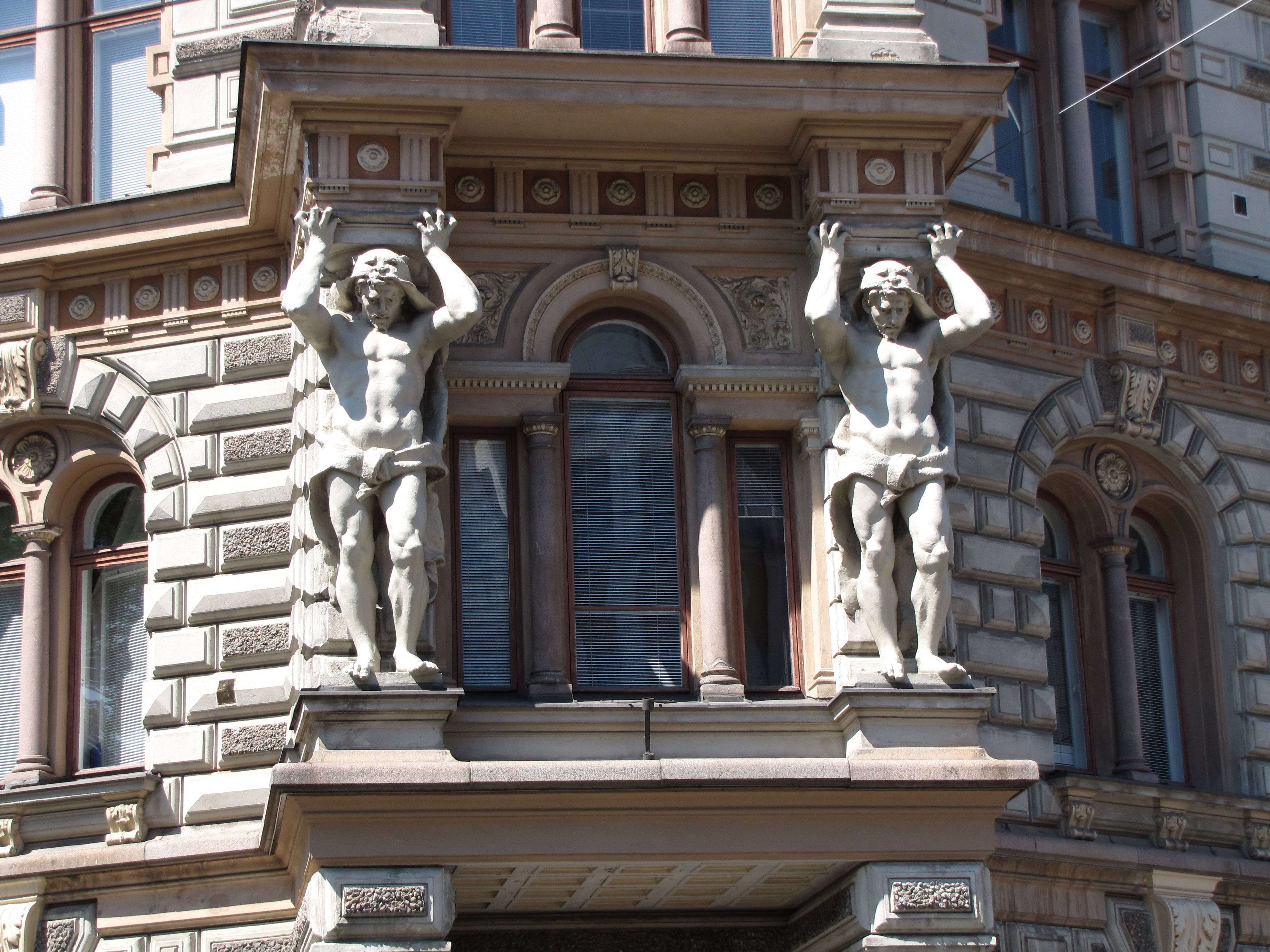 Insurance company Kaleva building, Erottaja 2, built 1889. The atlantes of the first level were sculpted by Robert Stigell (1852 - 1907).